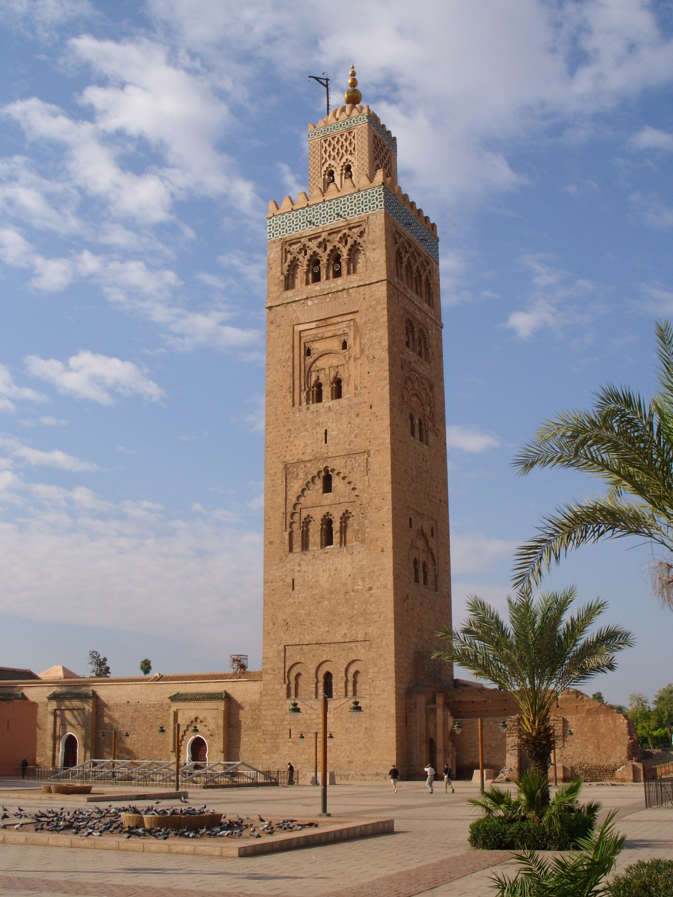 Koutoubia Mosque